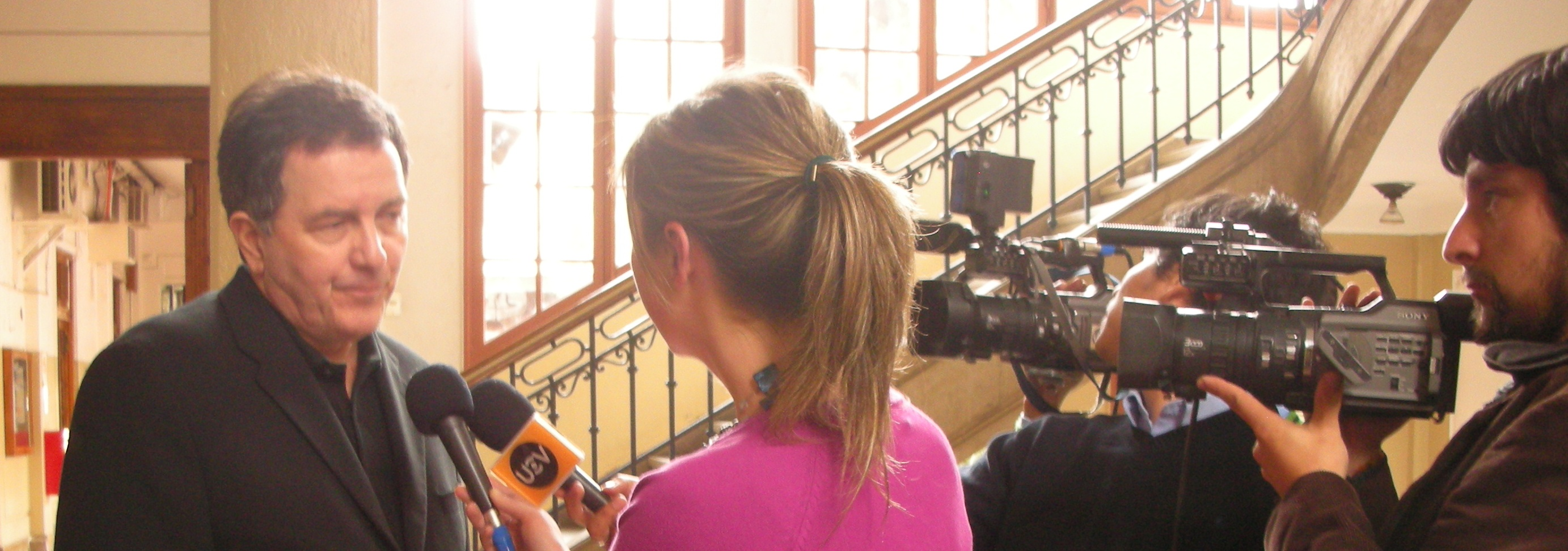 Photo taken by me after a conference in the Catholic University of Vaparaíso